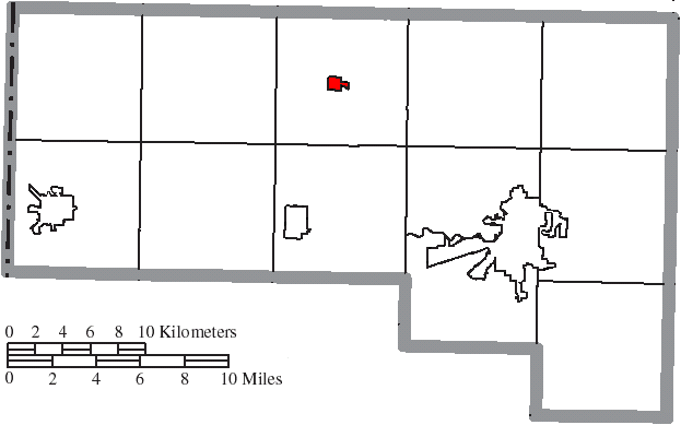 Map of the municipal and township boundaries of Defiance County, Ohio, United States, as of the 2000 census, with the location of the village of Ney highlighted. Township borders are shown only in unincorporated areas in order to differentiate incorporated and unincorporated areas more clearly.